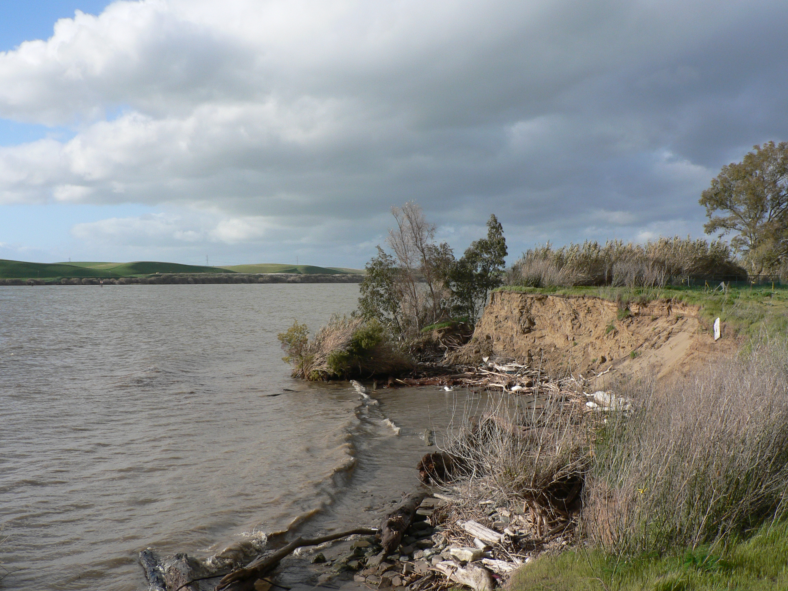 A view on the Sacramento River from Windy Cove, in the Sacramento River Delta, California, USA